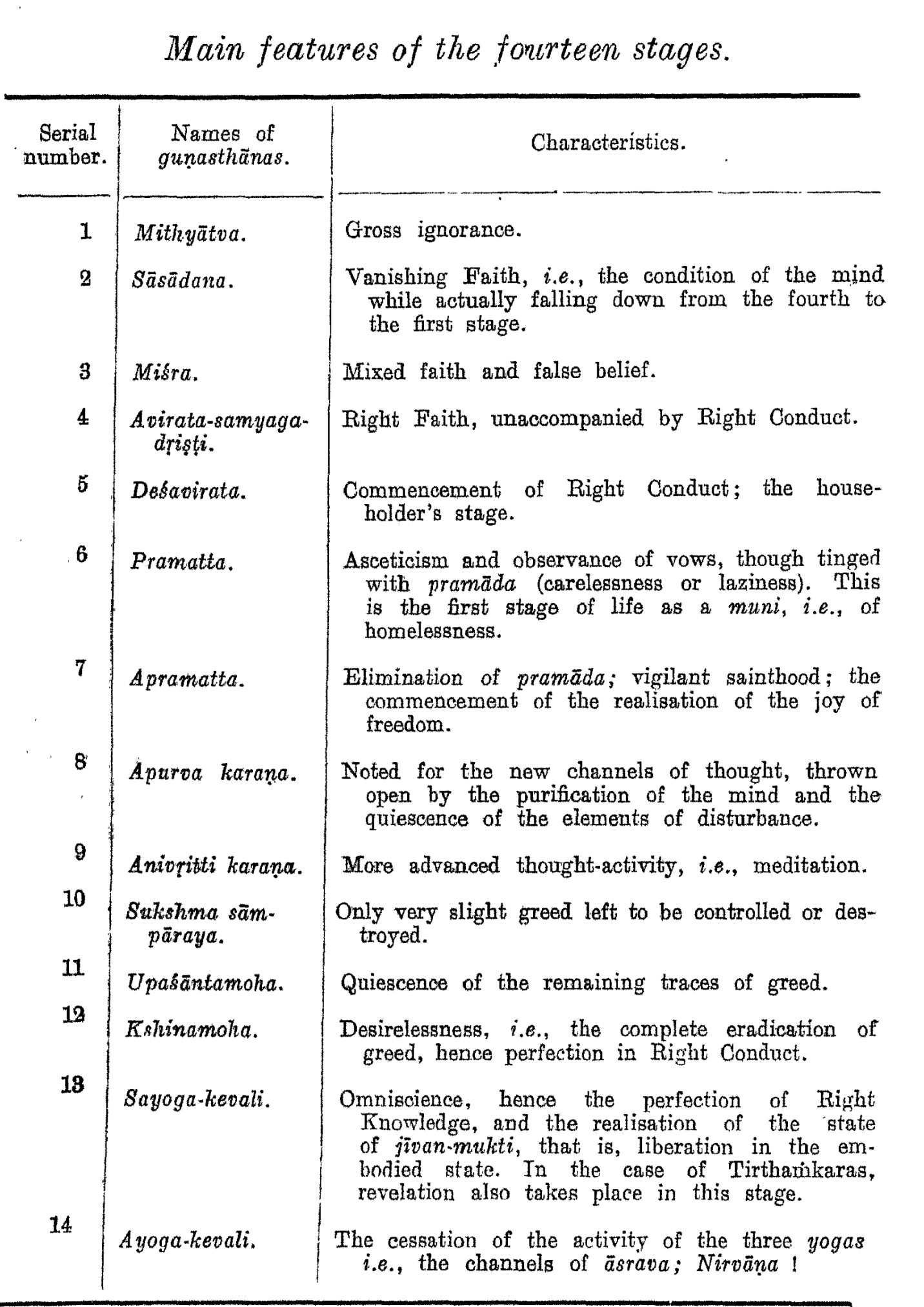 Fourteen stages of the practical path (Gunasthana)